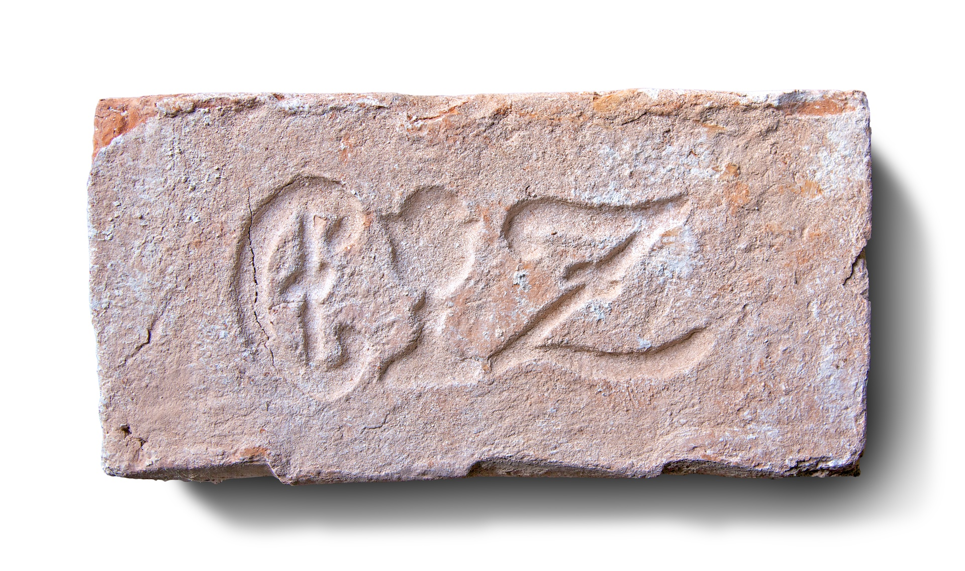 Ziegel aus der Ziegelbrennerei Caspar Zeitlingers mit dem Hammerzeichen "Kelch mit Hostie" und dem Monogramm "C🍸Z"